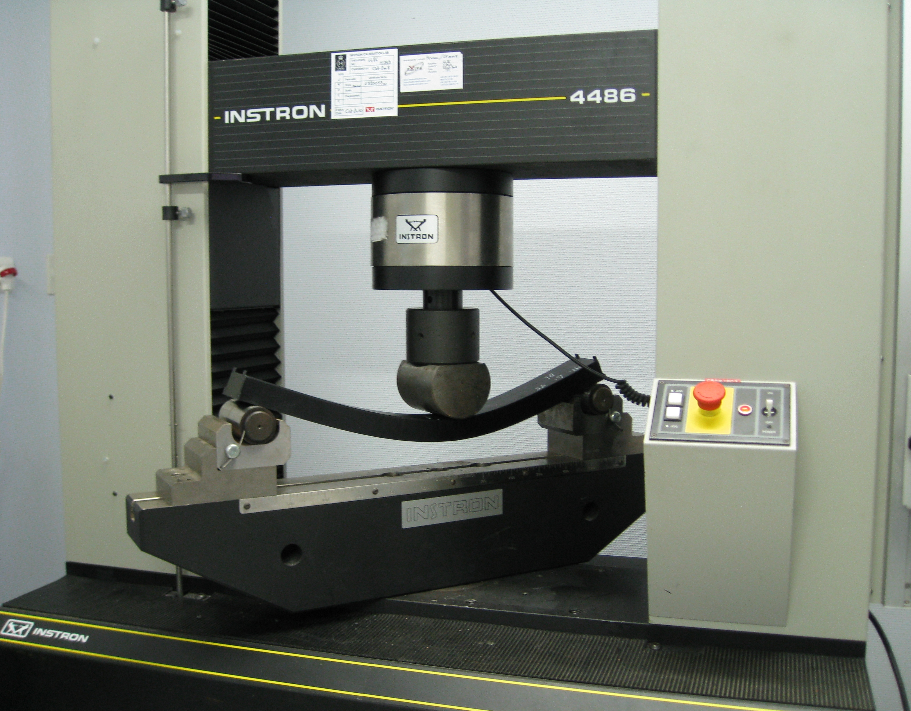 Three point flexural test on a composite beam at speed=10 mm/min. Universal testing machine (Instron brand) equipped with a 300 kN dynamometer.